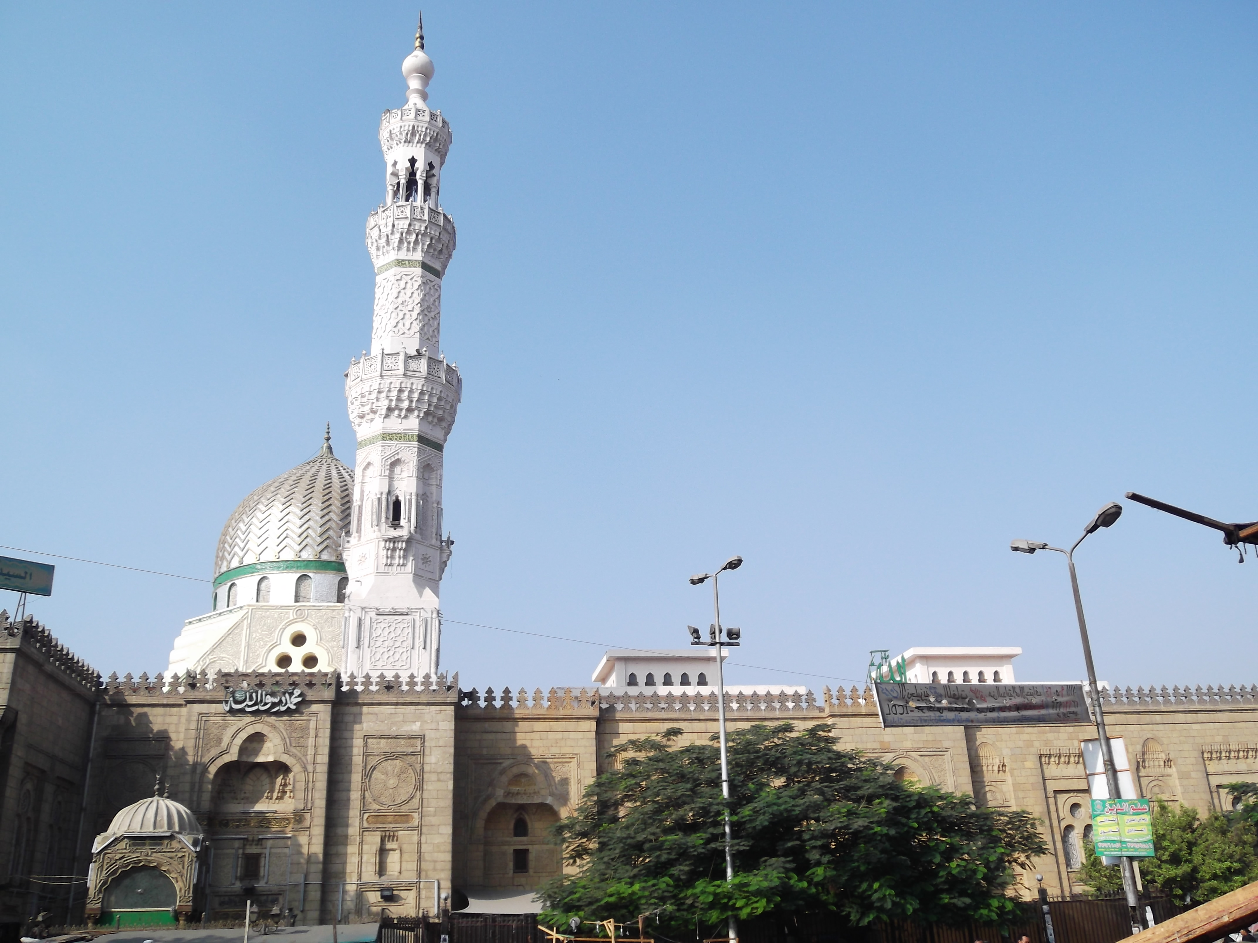 Mosque of Sayeda Zainab